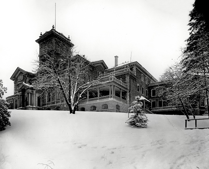 Photograph Sir H. Montagu Allan's house "Ravenscrag", Pine Avenue, Montreal, QC, 1903; Wm. Notman & Son; 1903, 20th century; Silver salts on glass - Gelatin dry plate process; 20 x 25 cm; Purchase from Associated Screen News Ltd.; II-144763; © McCord Museum